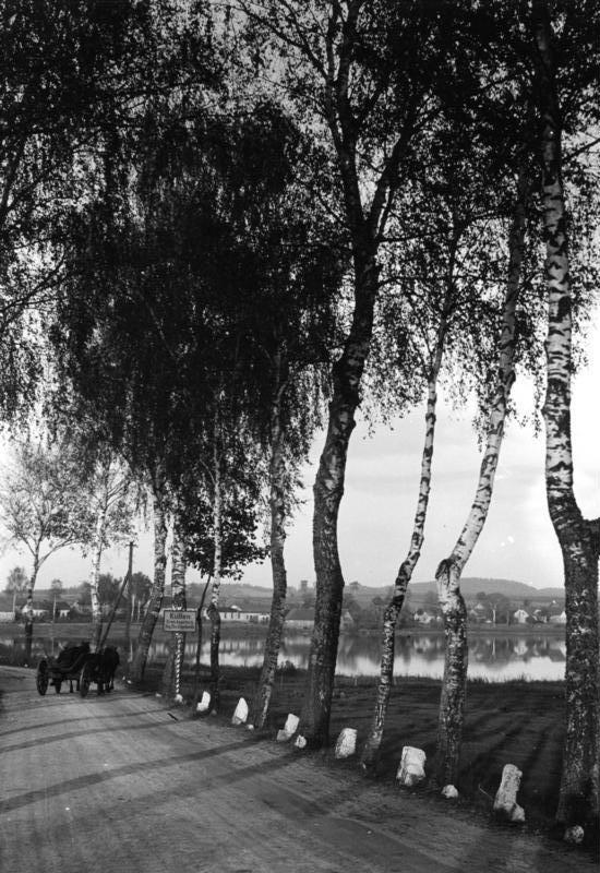 Avenue in Kuty, Poland (former Kutten, East Prussia)